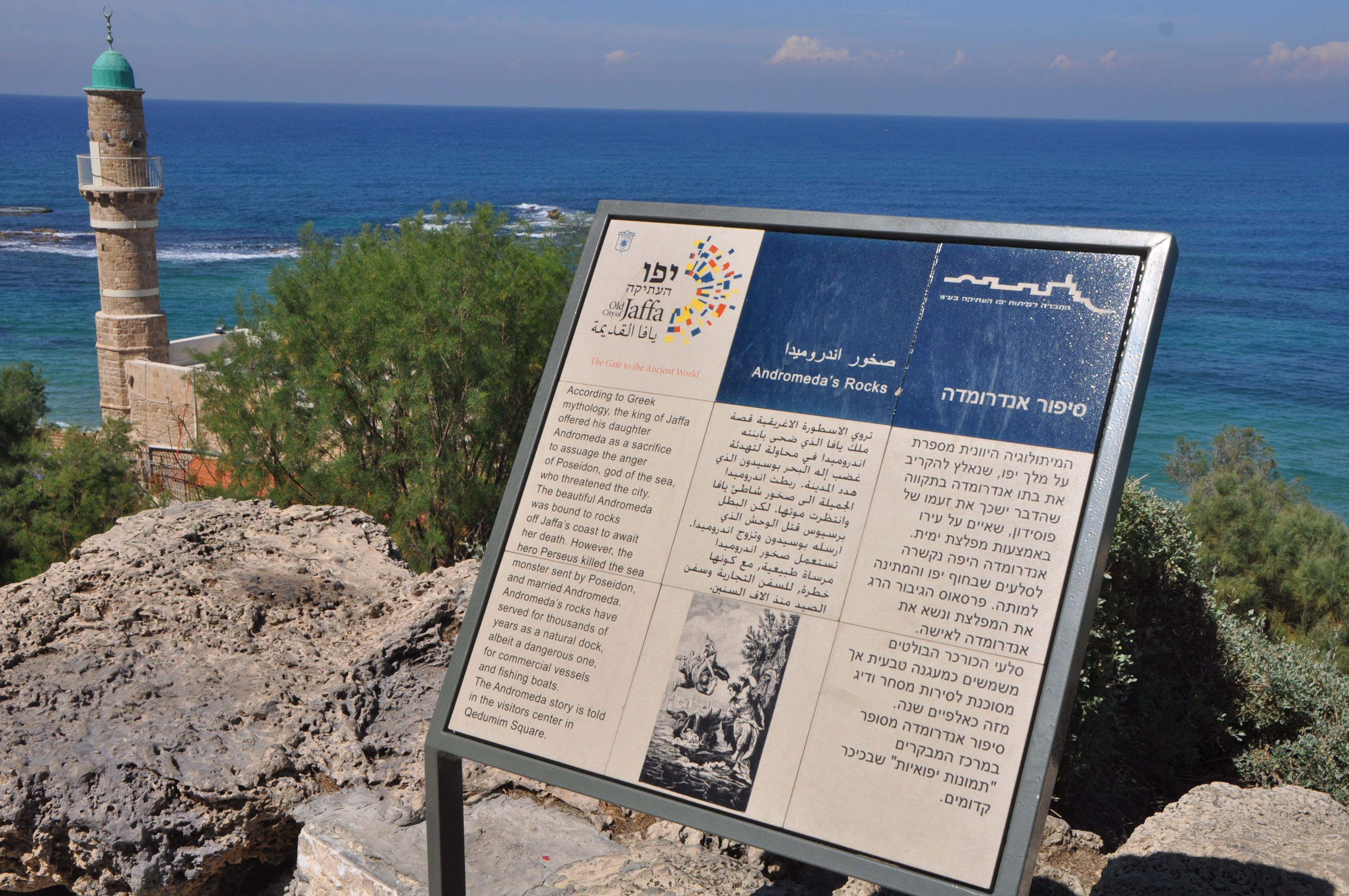 Old Jaffa, The Andromeda Rock in Jaffa, Israel